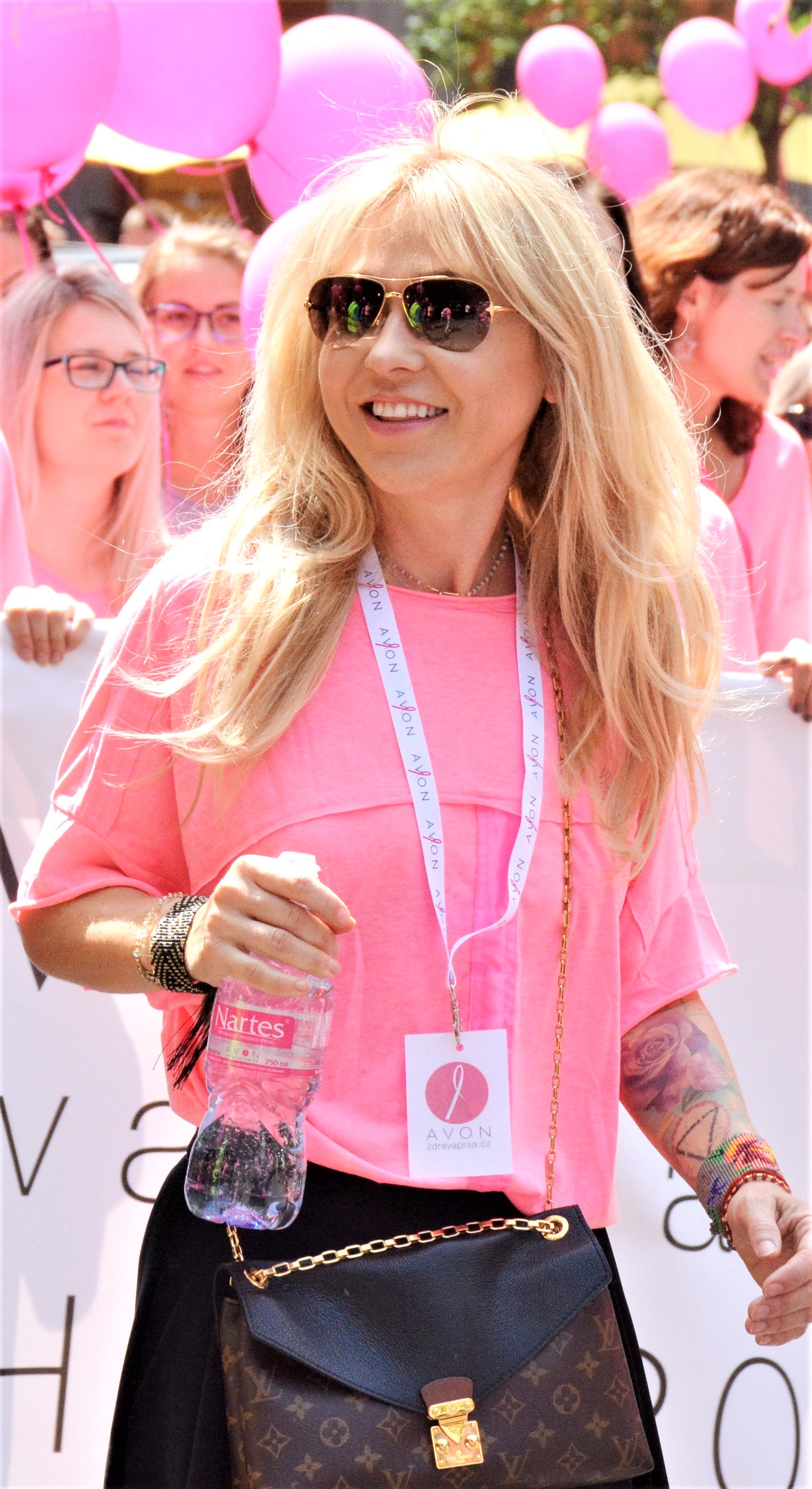 Kateřina Hrachovcová, Czech actress